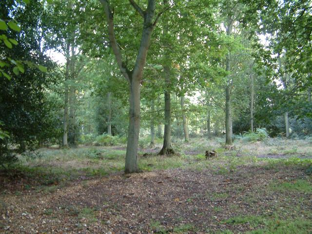 Pamber Forest. - on the way to Gravelpit Copse.